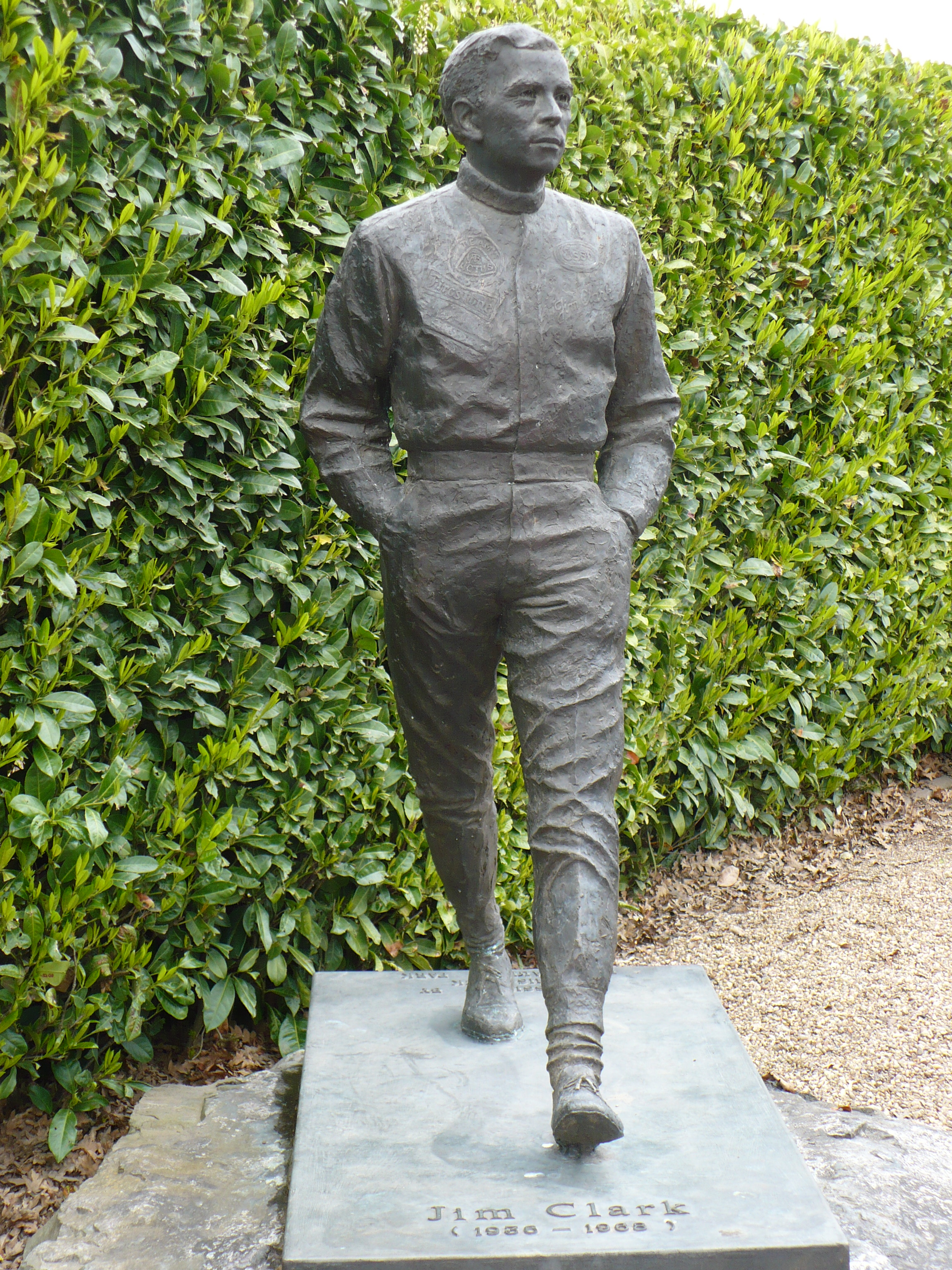 Statue of Jim Clark at Mallory Park.